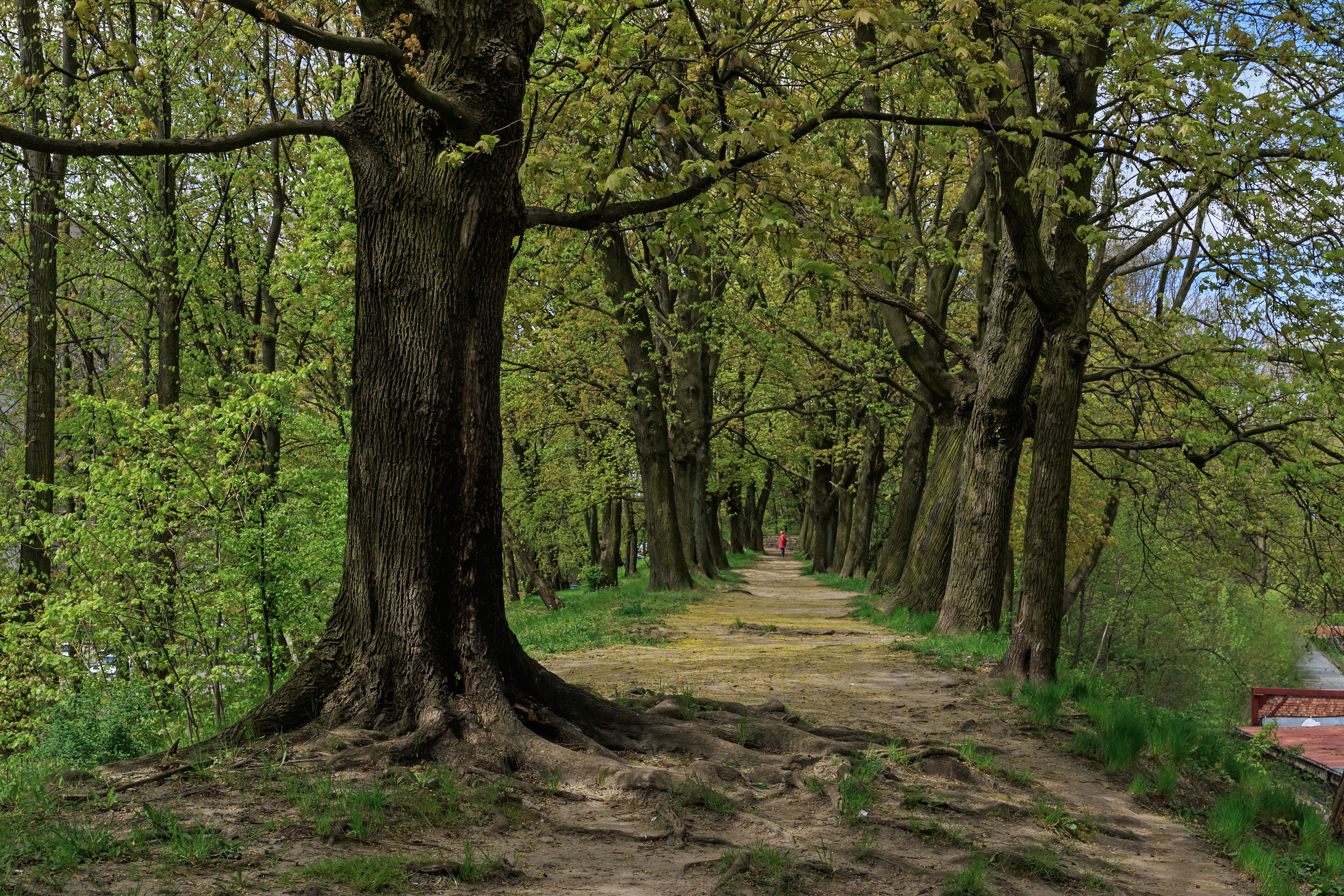 Lithuanian Wall (part of former city wall) in Kaliningrad formerly Königsberg, Kaliningrad Oblast (Russia).